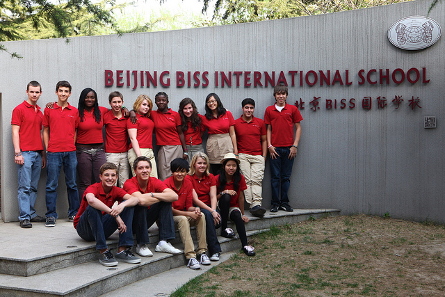 THINK Global School students partner with another IB school as they travel the world